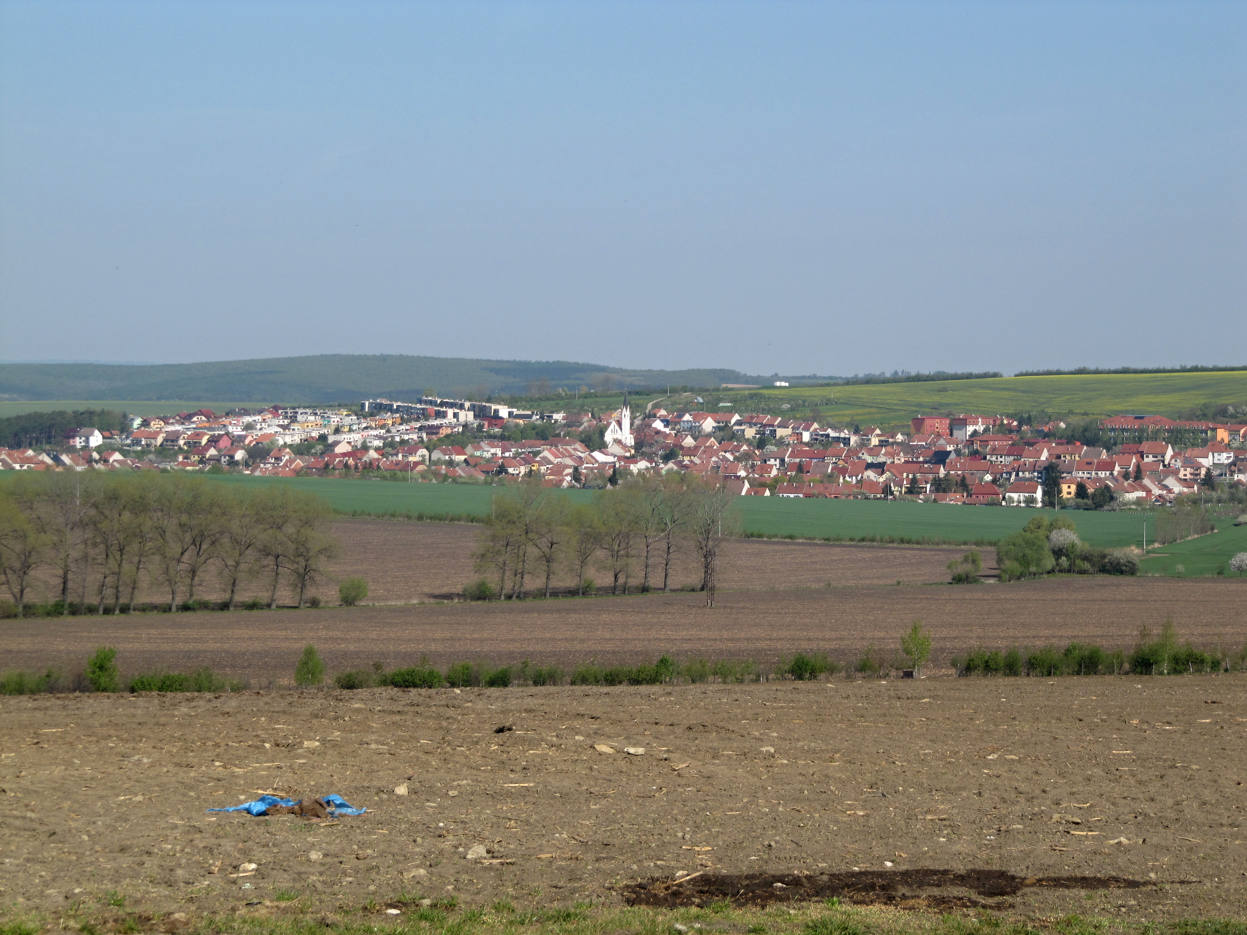 Dolní Němčí in Uherské Hradiště District, Czech Republic. General view.